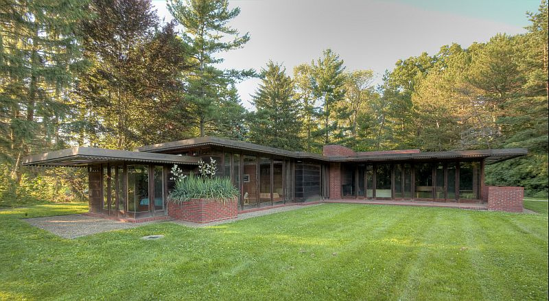 A view from the northeast of the Weltzheimer/Johnson house built by Frank Lloyd Wright and now owned by the Allen Memorial Art Museum.